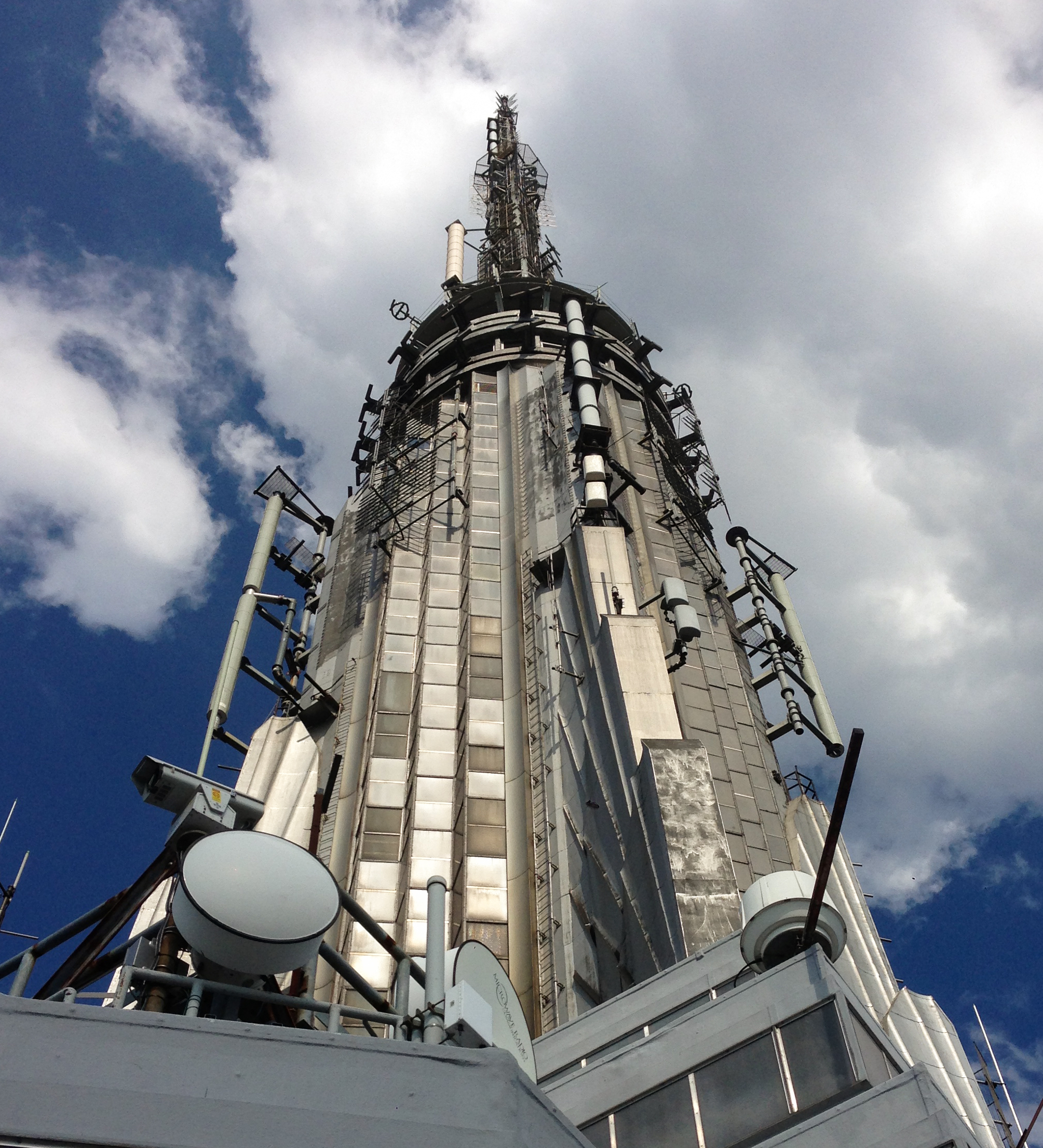 "The top of the Empire State Building with a sky view background"